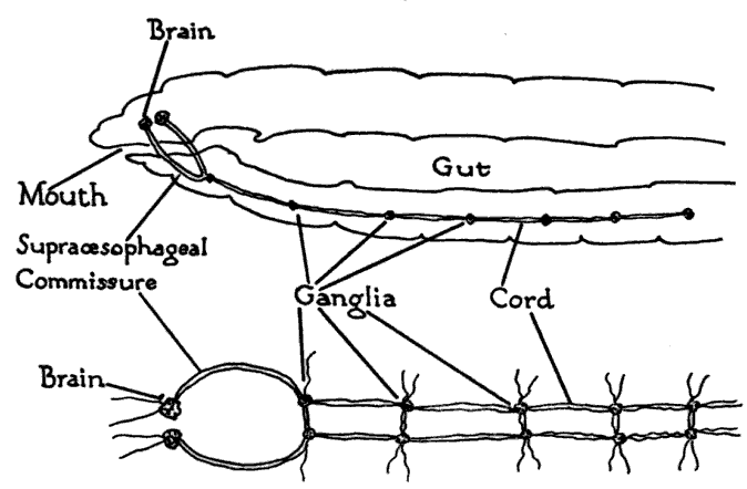 Drawing of the anterior end of an earthworm, showing a side view of the animal (top) and a top-down view of the two nerve cords and brain (bottom).